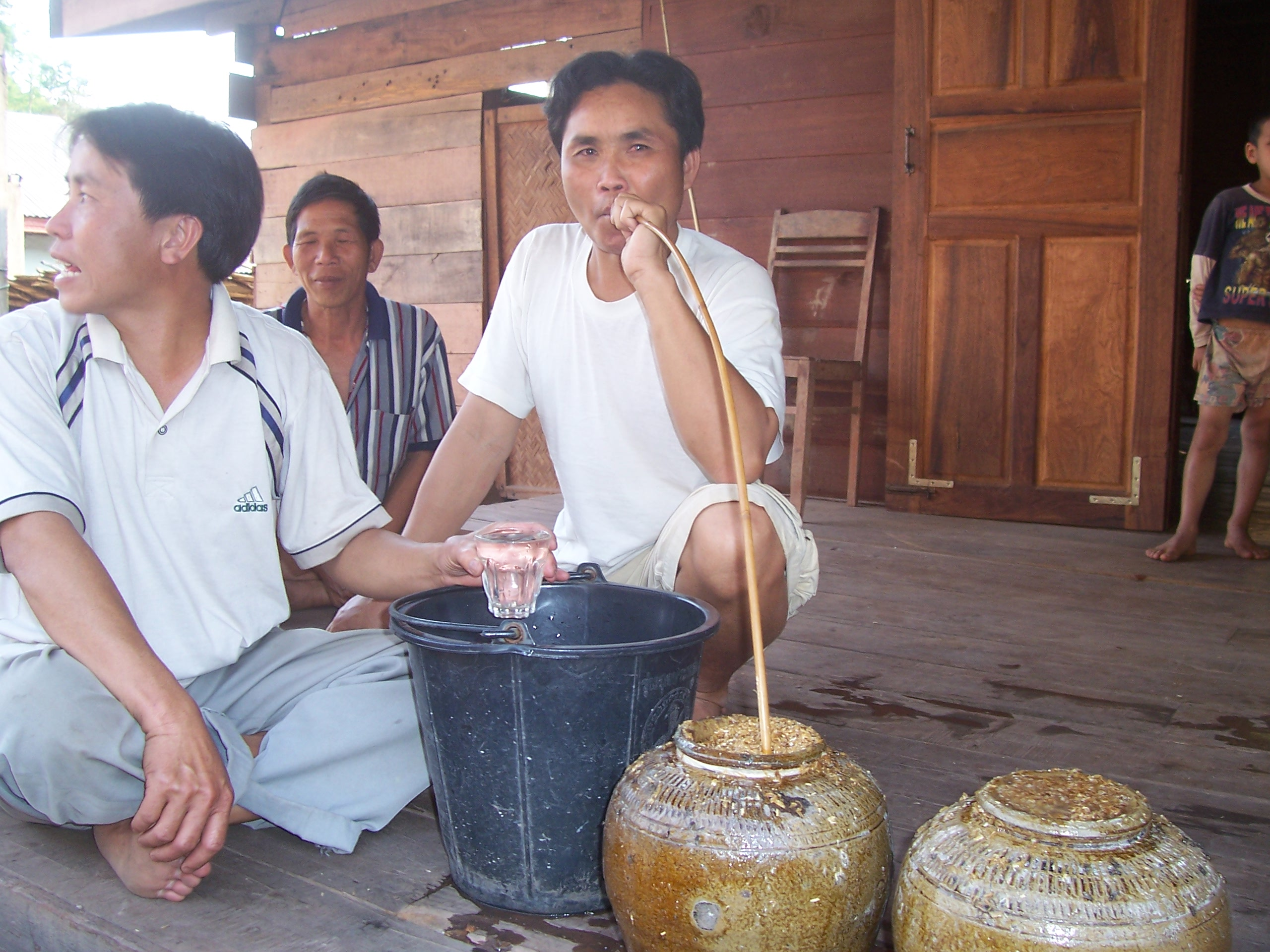 Lao men drinking Lao-Lao, a type of Laotian rice wine. Photo taken at Paksan (Paksane), in the central Laotian province of Bolikhamxai, on the way to Vietnam.